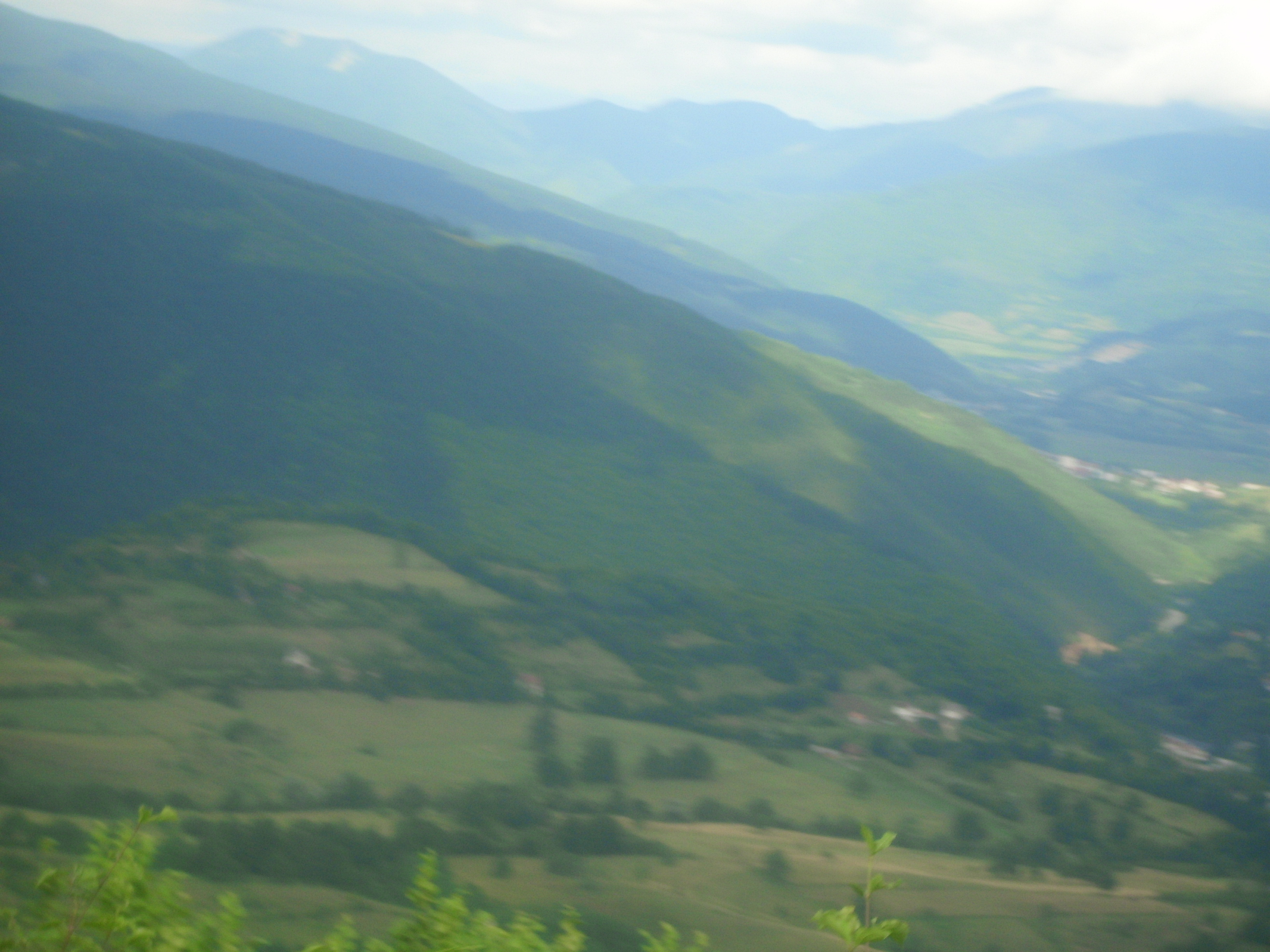 Sokolac and Šipovo in background